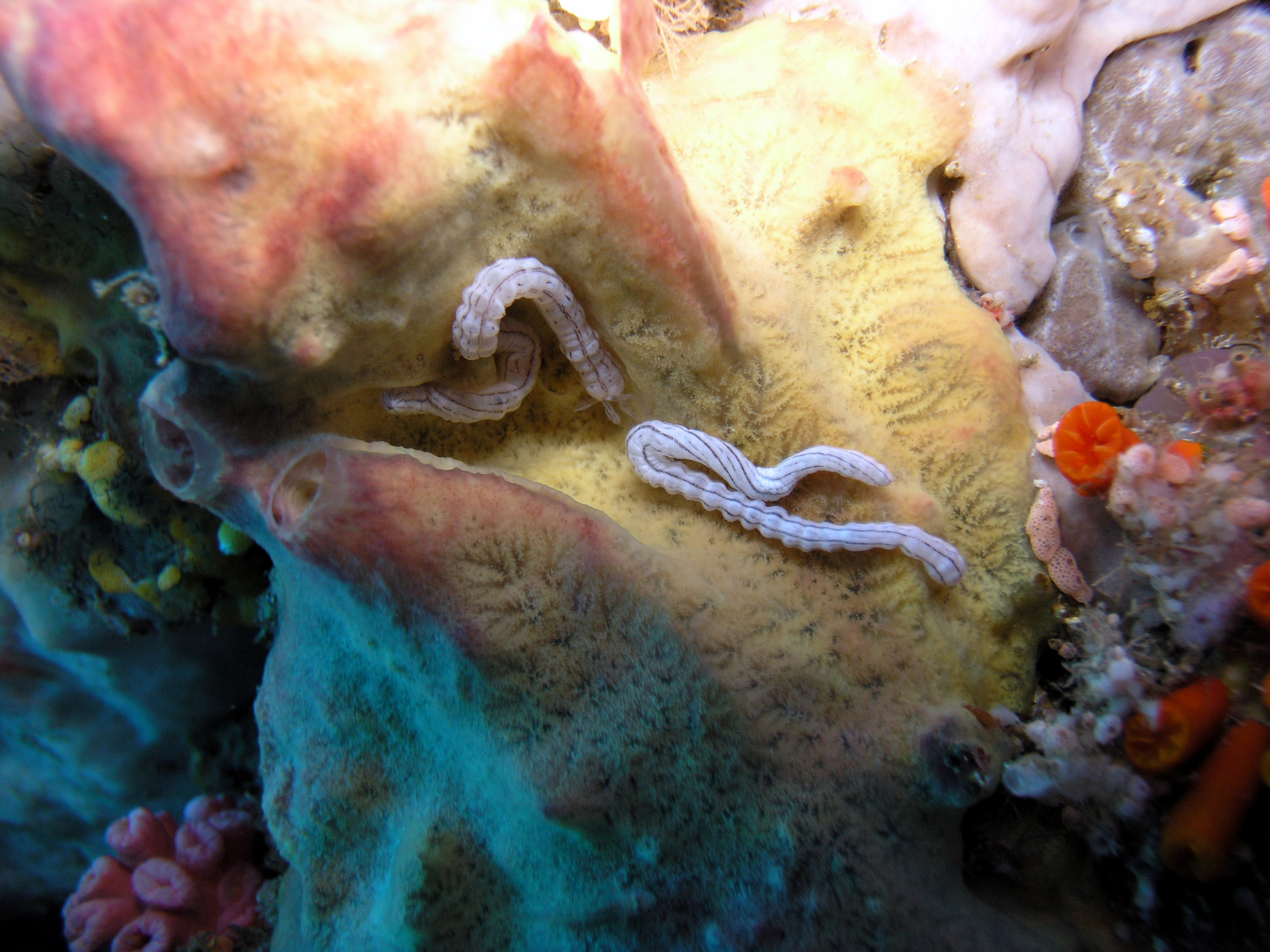 Image of Medusa worms, Synaptula lambert. Picture taken off Manado, Indonesia.